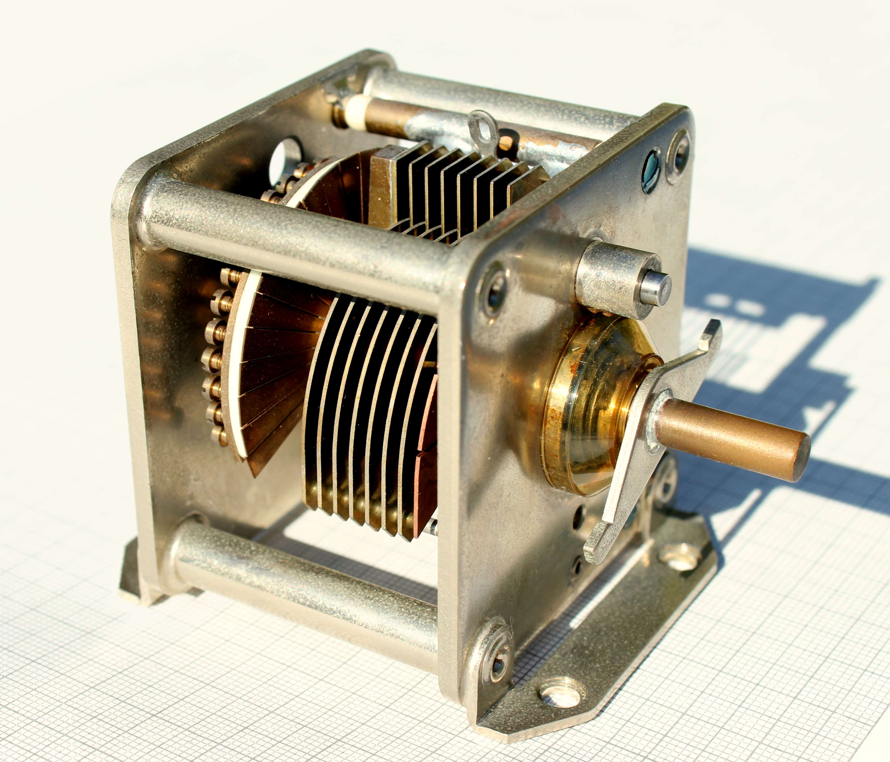 Tuning capacitor